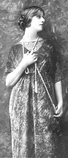 A young white woman, standing, one hand to chest. She is wwearing a loose-fitting dress with a lace insert at the neckline, and a string of pearls. Her hair is fixed into a chignon at the nape.